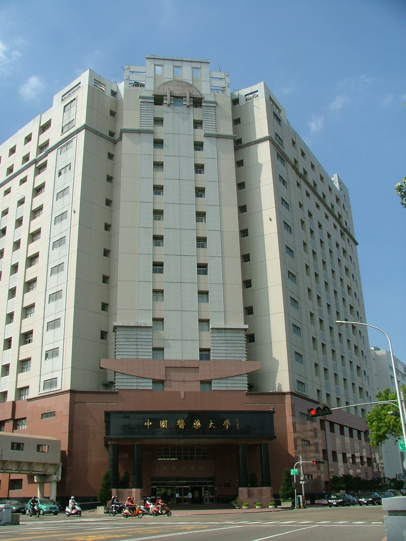 China Medical UniversityBân-lâm-gú: Tiong-kok I-io̍h Tāi-ha̍k. 中國醫藥大學